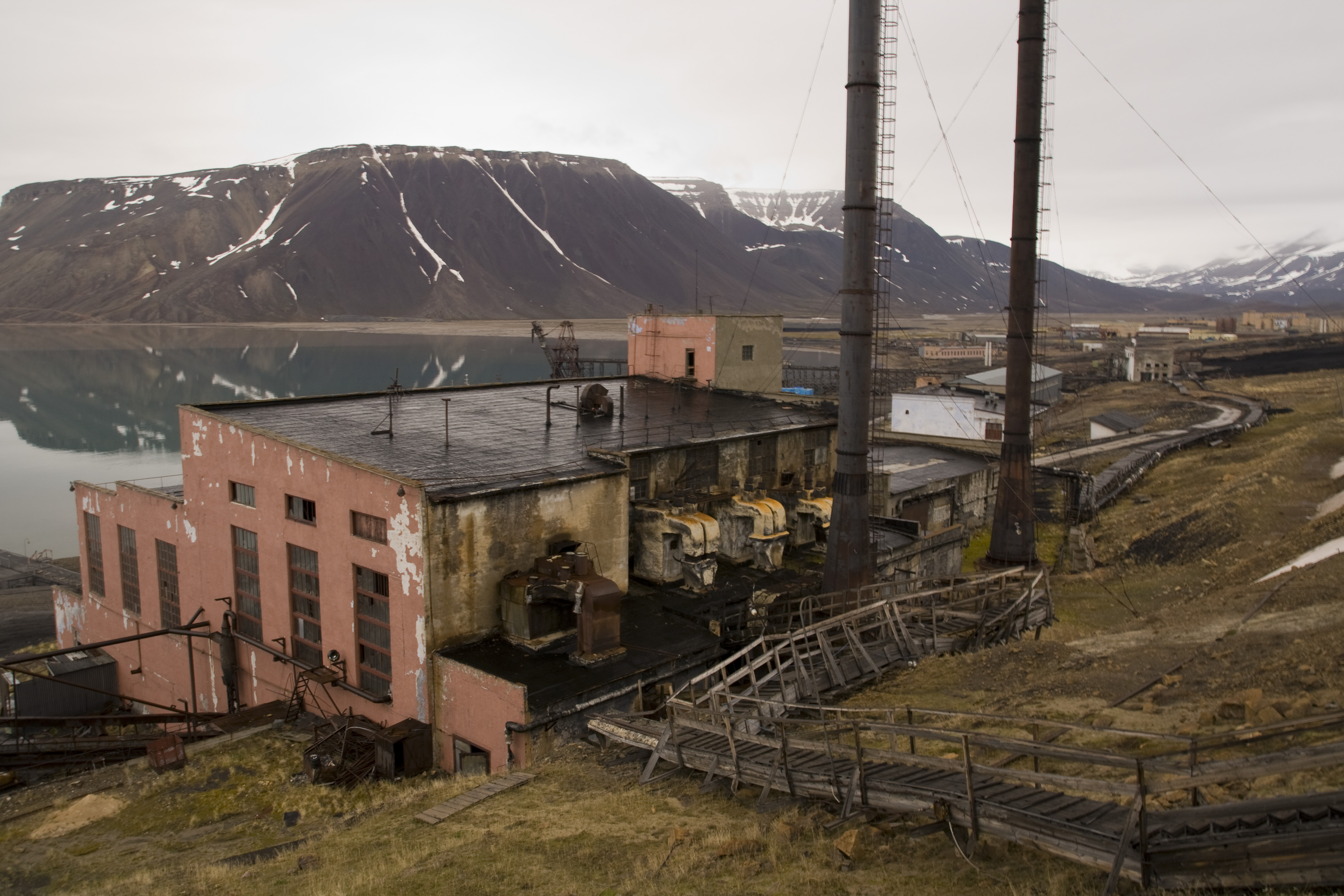 the old coal plant in Pyramiden, Svalbard